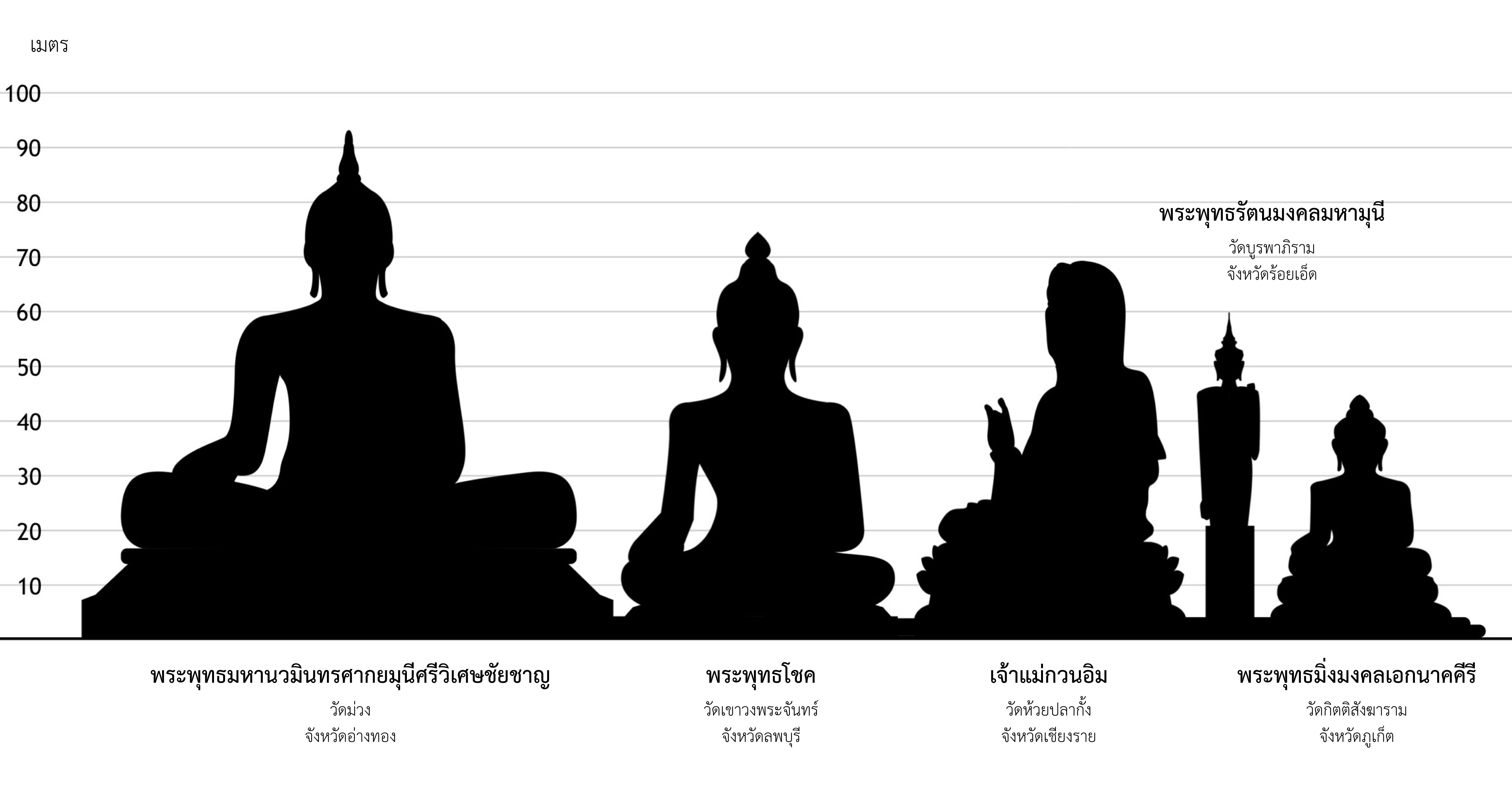 Height comparison of the tallest statues in Thailand, as of 2019 Information as mentioned in รายชื่อรูปปั้นที่สูงที่สุดในประเทศไทย, as of 7 May 2020; 22:00 version.